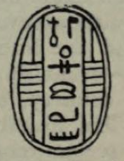 Scarab of pharaoh Yakbim Sekhaenre, 1897 drawing by Flinders Petrie. The scarab may now be in the Petrie Museum, see online